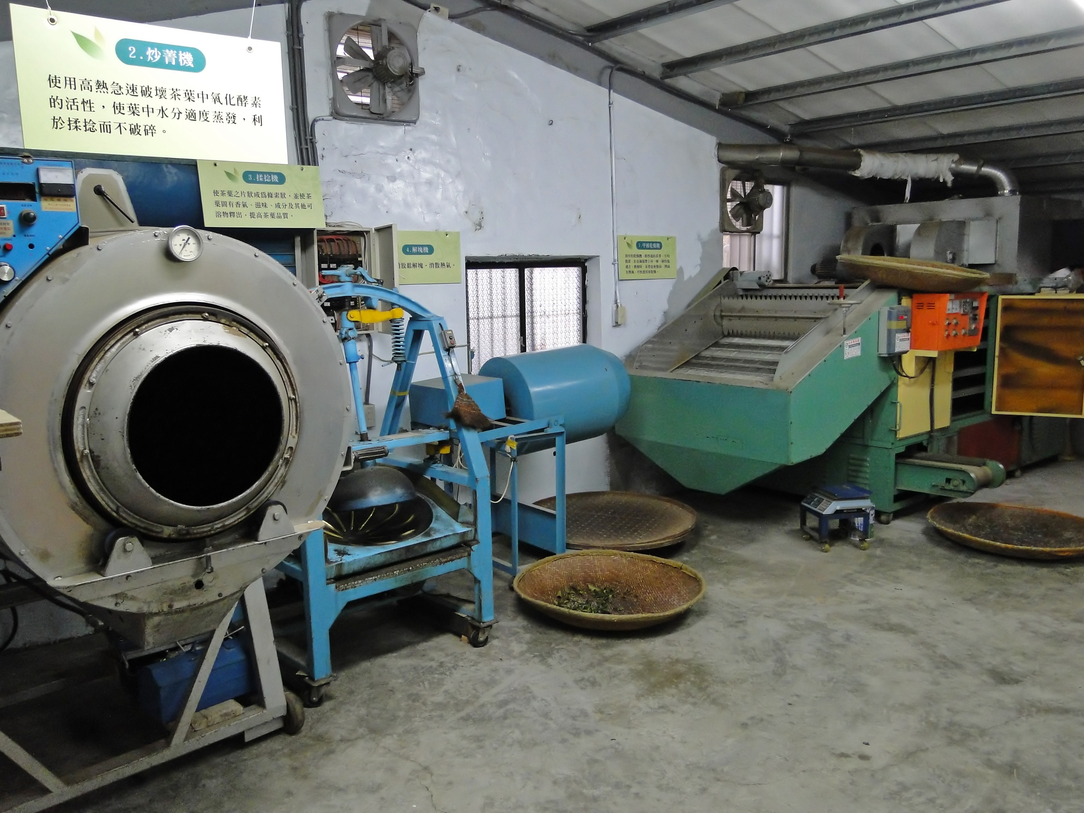 Tea factory in Pinglin District, New Taipei City, Taiwan